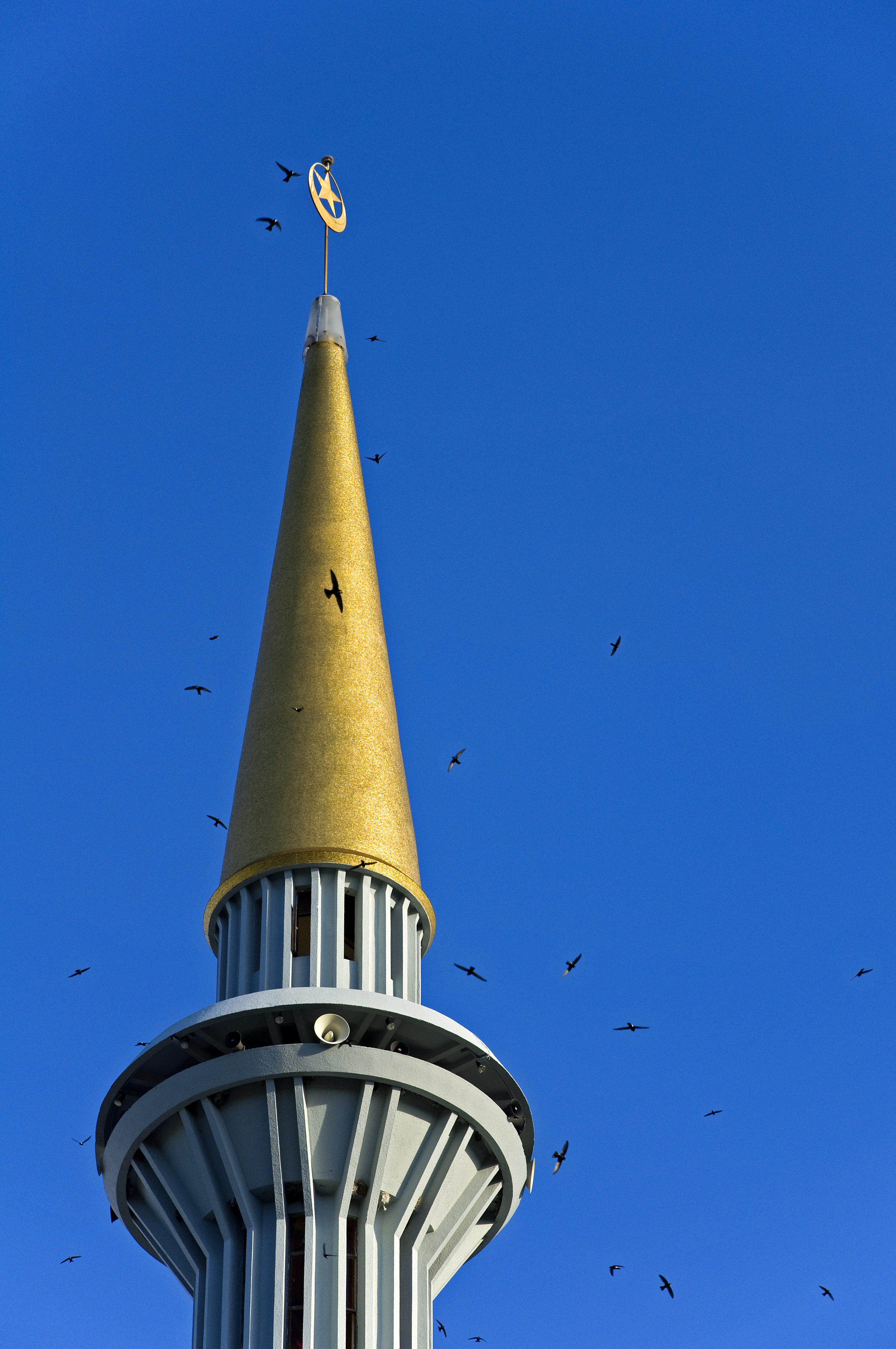 This is a close-up of the Sabah State Mosque minaret in Kota Kinabalu, Malaysia (Borneo). It is also the home of a massive swift colony. In the photo they can be seen coming out to feed early in the morning. Tucked away in the crevices and corners of the minaret's wall several nests can be seen. I have identified the swifts in the photo as being "Bornean Swiftlets" (Collocalia dodgei). They seem to be a subspecies of the "Cave Swiftlet" (Collocalia linchi). Im by no means a bird expert, so I may be wrong. Feel free to change this information if you consider it to be inaccurate. I have used the body shape/colour as seen in this photo to identify the birds (I didnt get a very good look at them while I was there. They where far and moved quite fast!). And as you can see, not much detail can be seen there, so it hard to tell with any certainty. I also considered the location and the type of nest to reach my conclusion. I did have a closer look at one of the nests (unfortunately didn't photograph it) and as I can recall, it seem to be the type made of twigs held together buy hardened saliva. Some of the other swift species in the area make nests out of pure saliva (that are edible). Those are the nest form which the Chinese make "Bird Nest Soup".